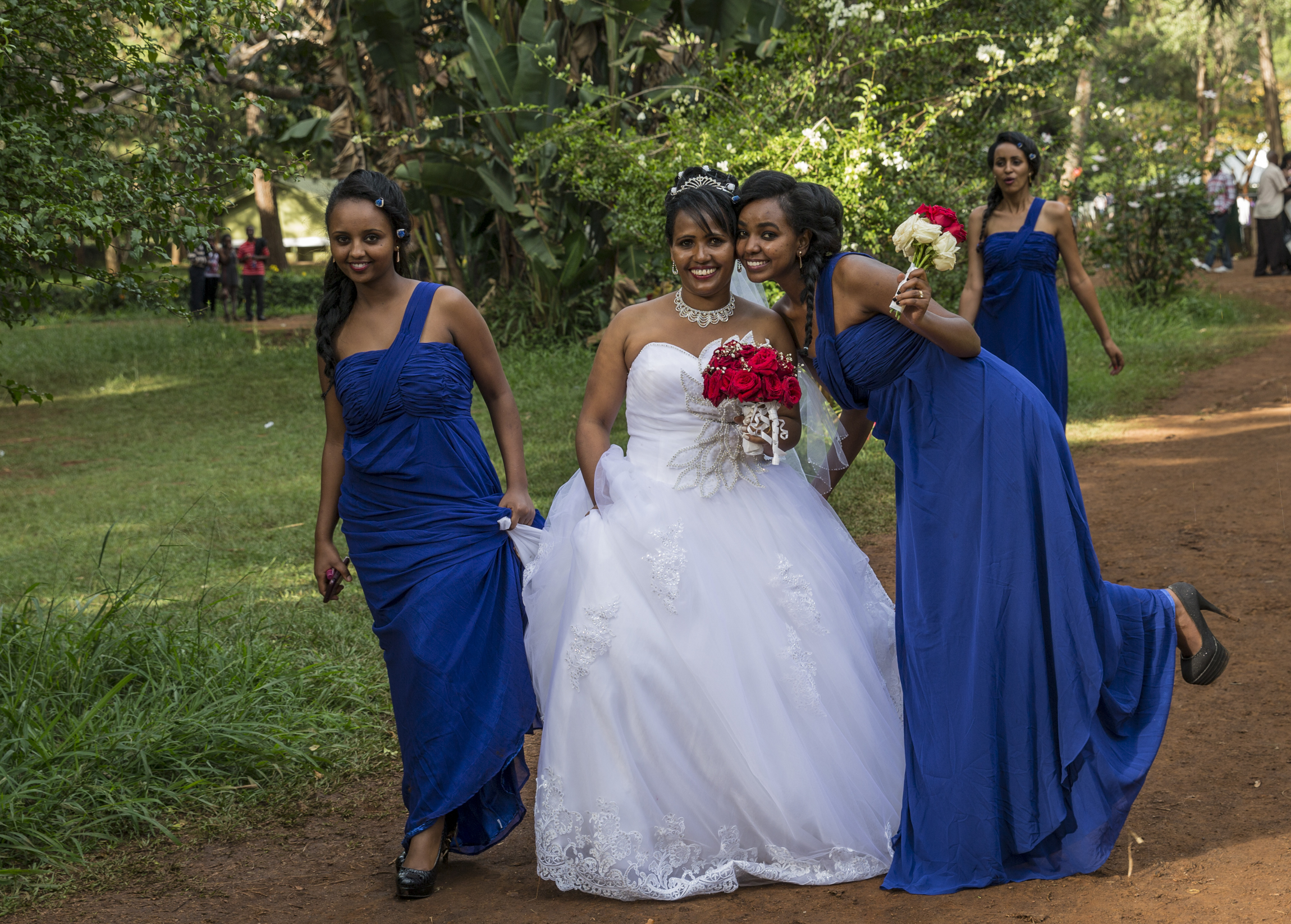 Erithrean Wedding in Nairobi